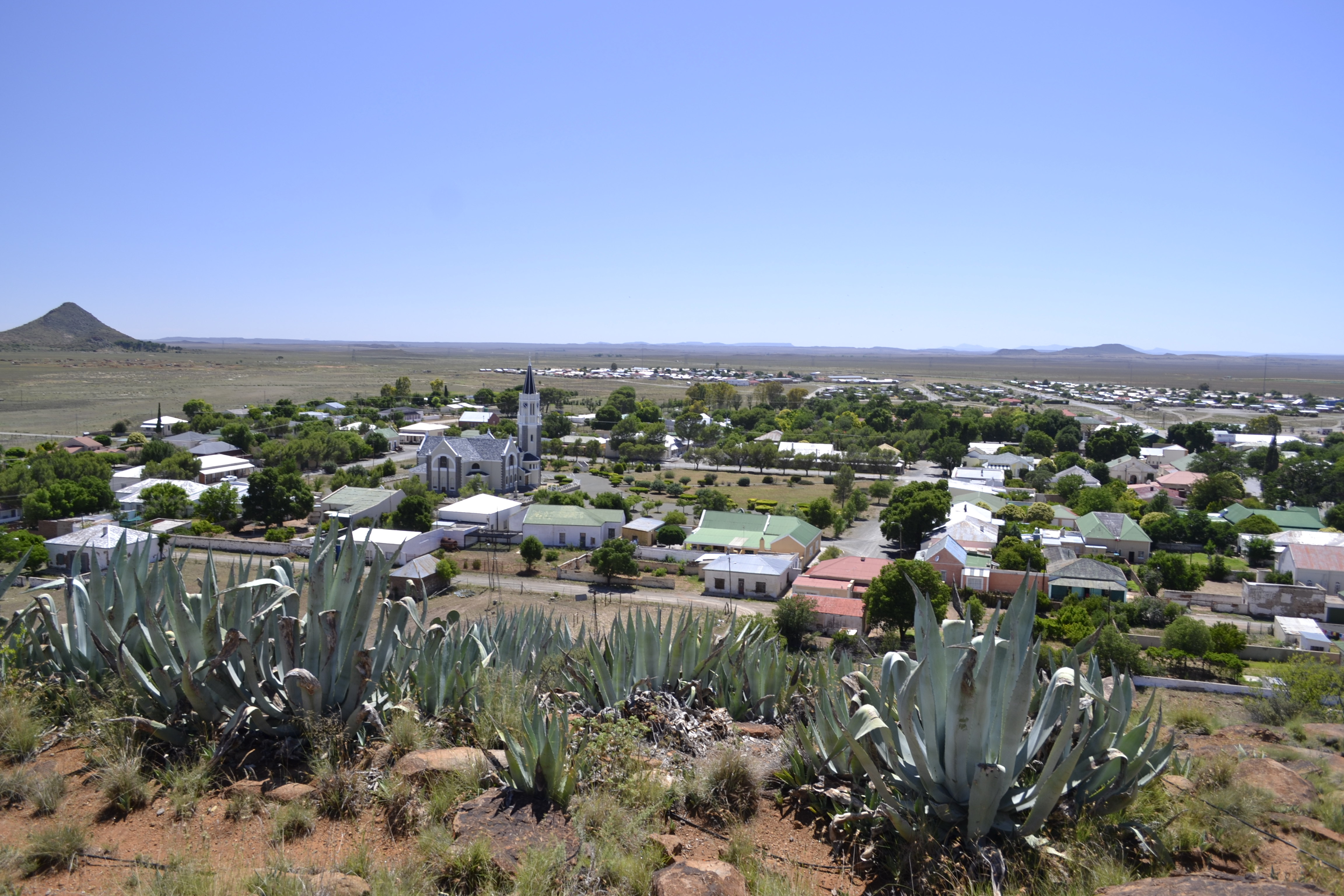 Dutch Reformed Church Church Street Hanover Northern Cape South Africa This media shows a South African Protected Site with SAHRA file reference 9/2/035/0010.